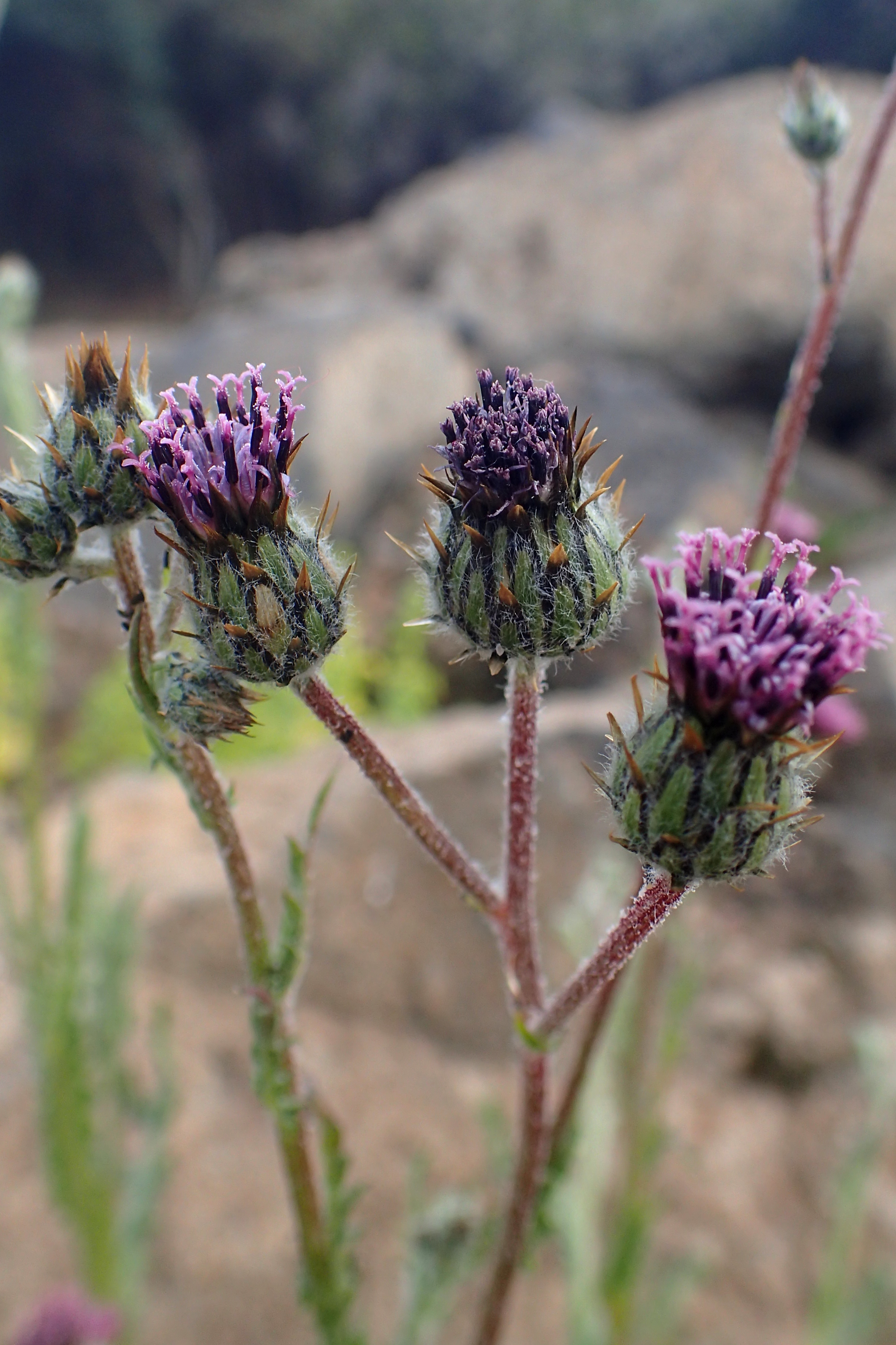 Volutaria tubuliflora at Mirador de la Palma, Tenerife